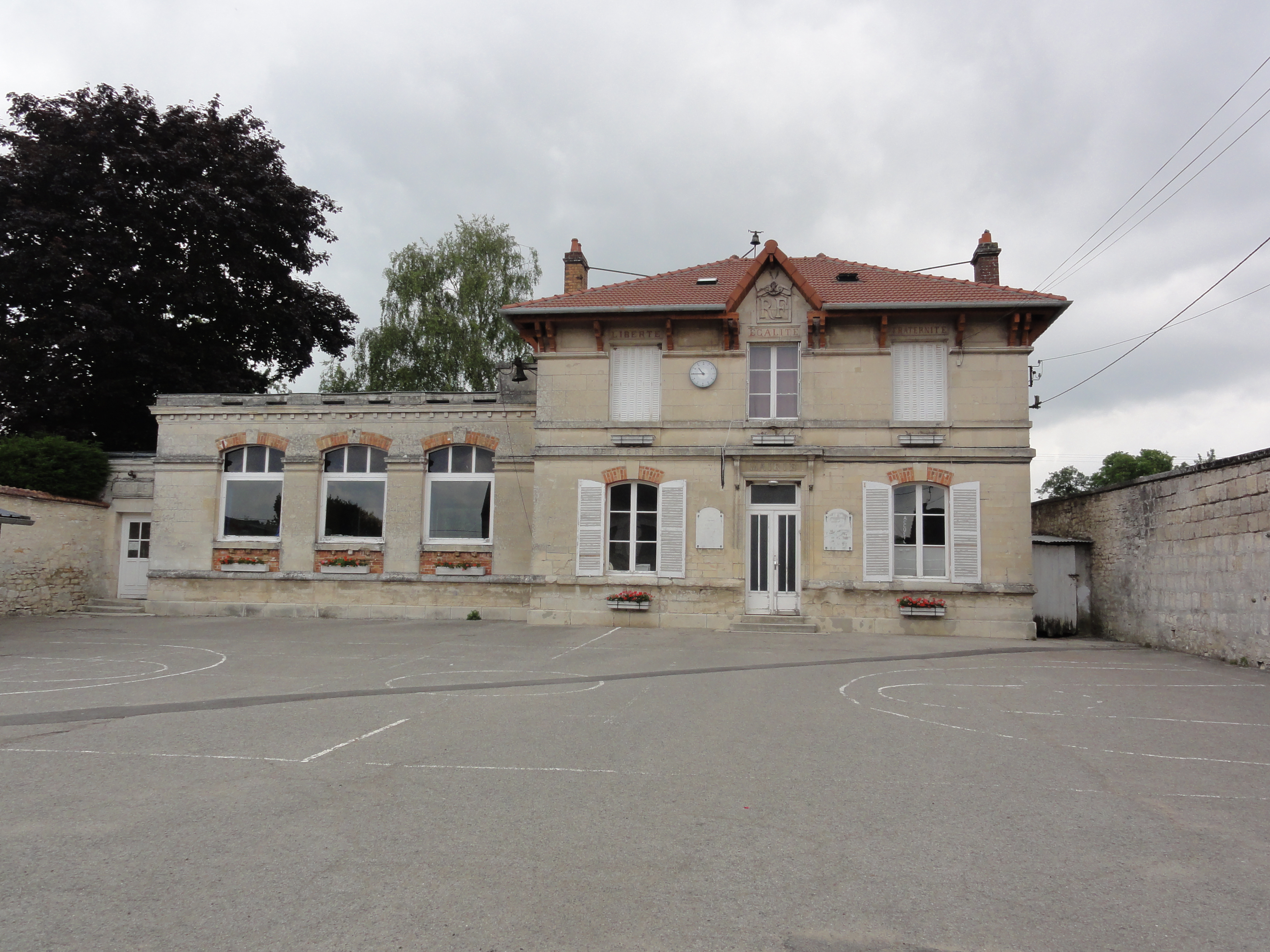 Dommiers (Aisne) mairie - école